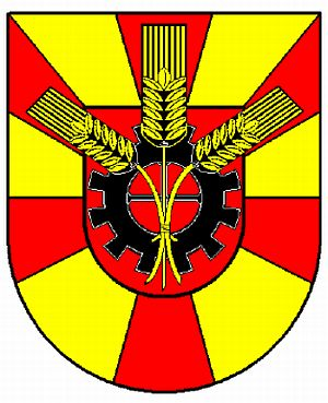 Coat of Arms of municapility Schellerten.